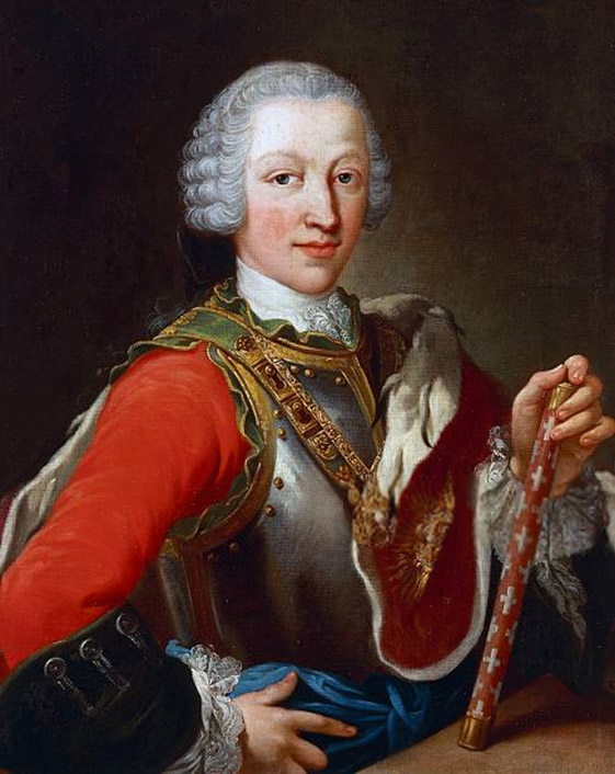 Portrait of Victor Amadeus III of Sardinia (1726-1796)